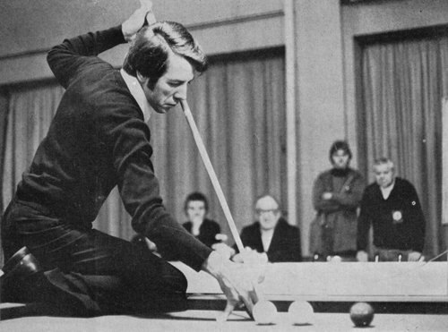 German carom billiards player